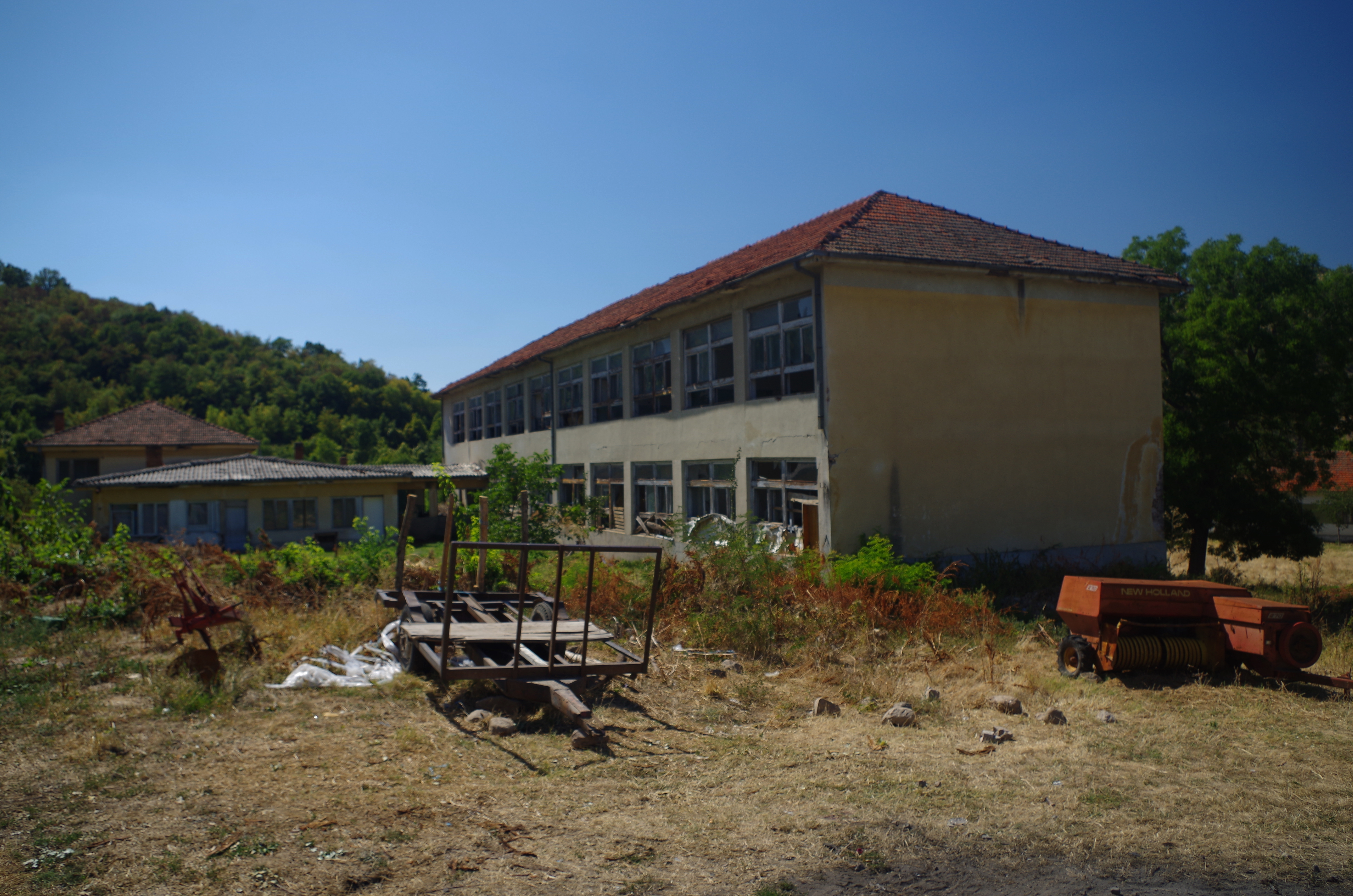 School building in the village of Gorna Bošava